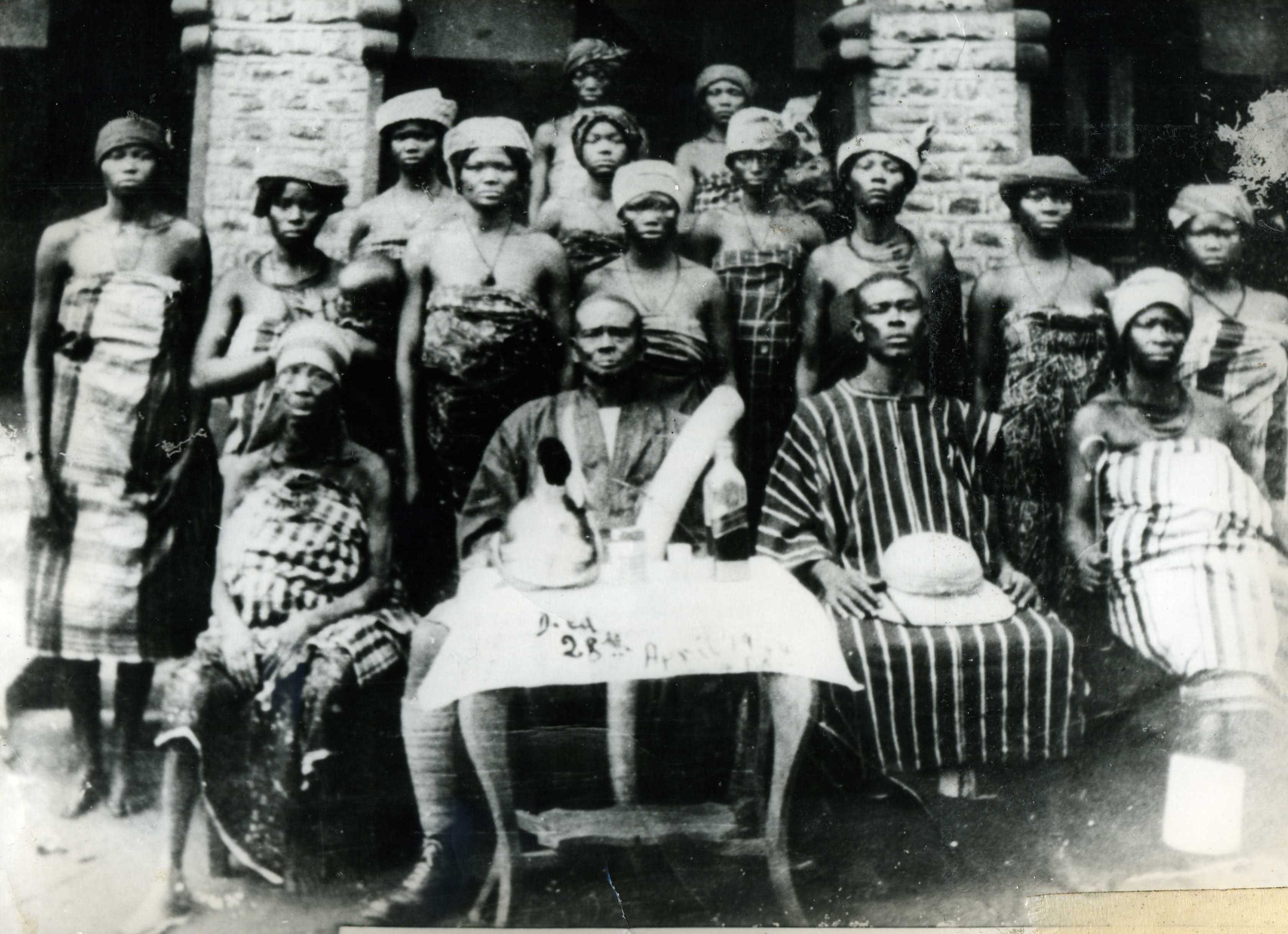 Ojiako Ezenne (center), with his mother (on his right), brother (Nnoli Ezenne), and his wives. Circa 1913